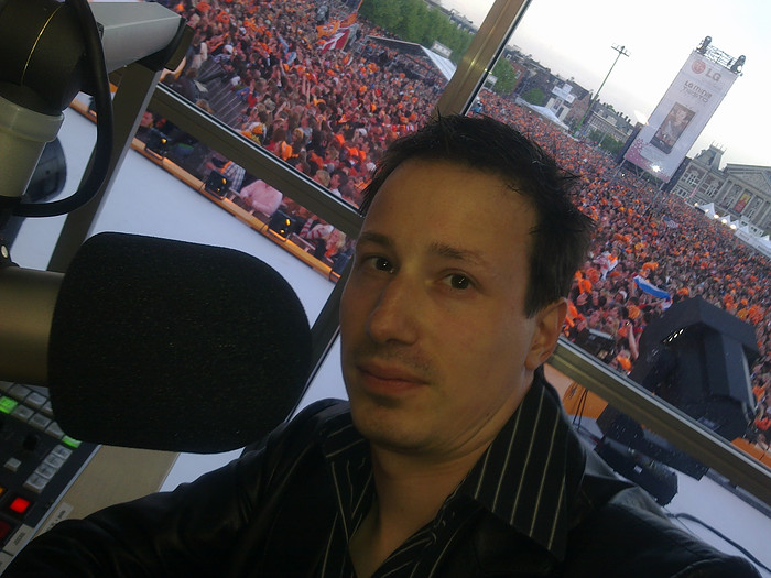 Dutch dj Martijn Muijs